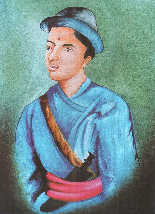 Balbhadra Kunwar, commander of the Nalapani Fort and Nephew (Bhanja) of PM Bhimsen Thapa